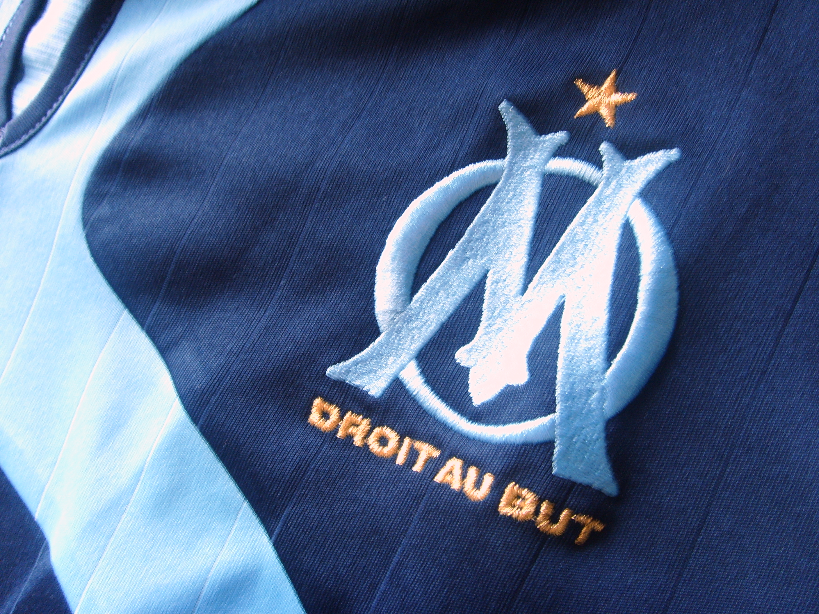 Part of a OM shirt